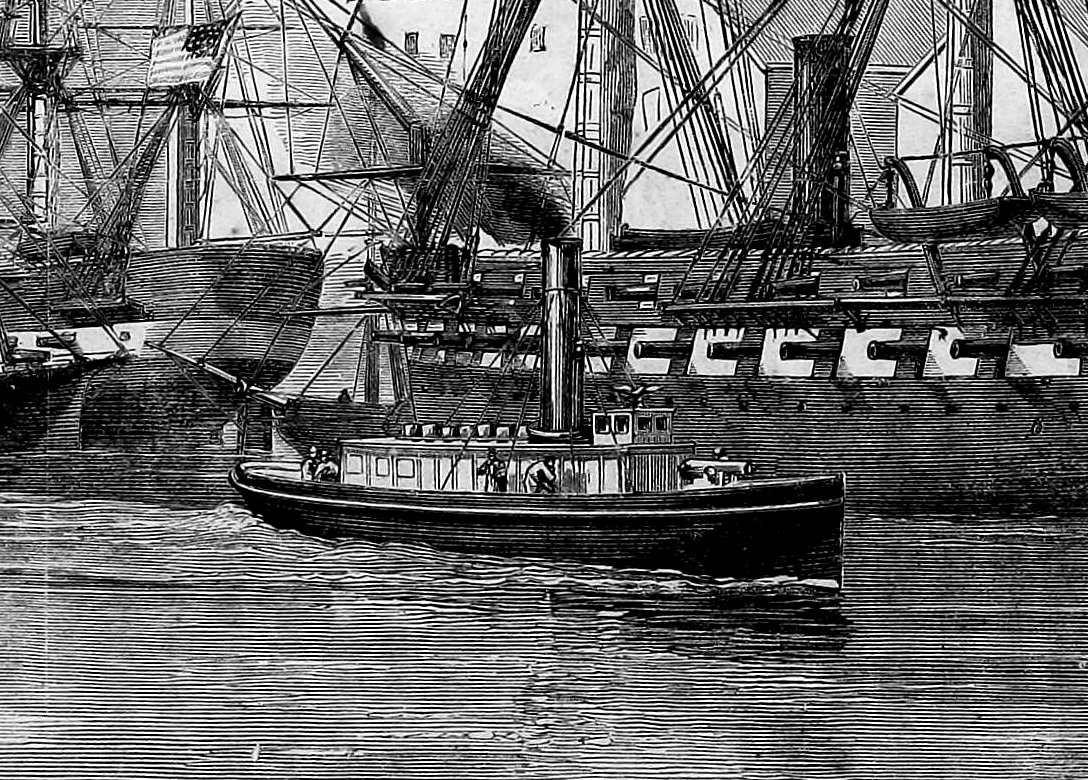 The armed tugboat USS Resolute (built 1860) at the Brooklyn Navy Yard, June 1861.